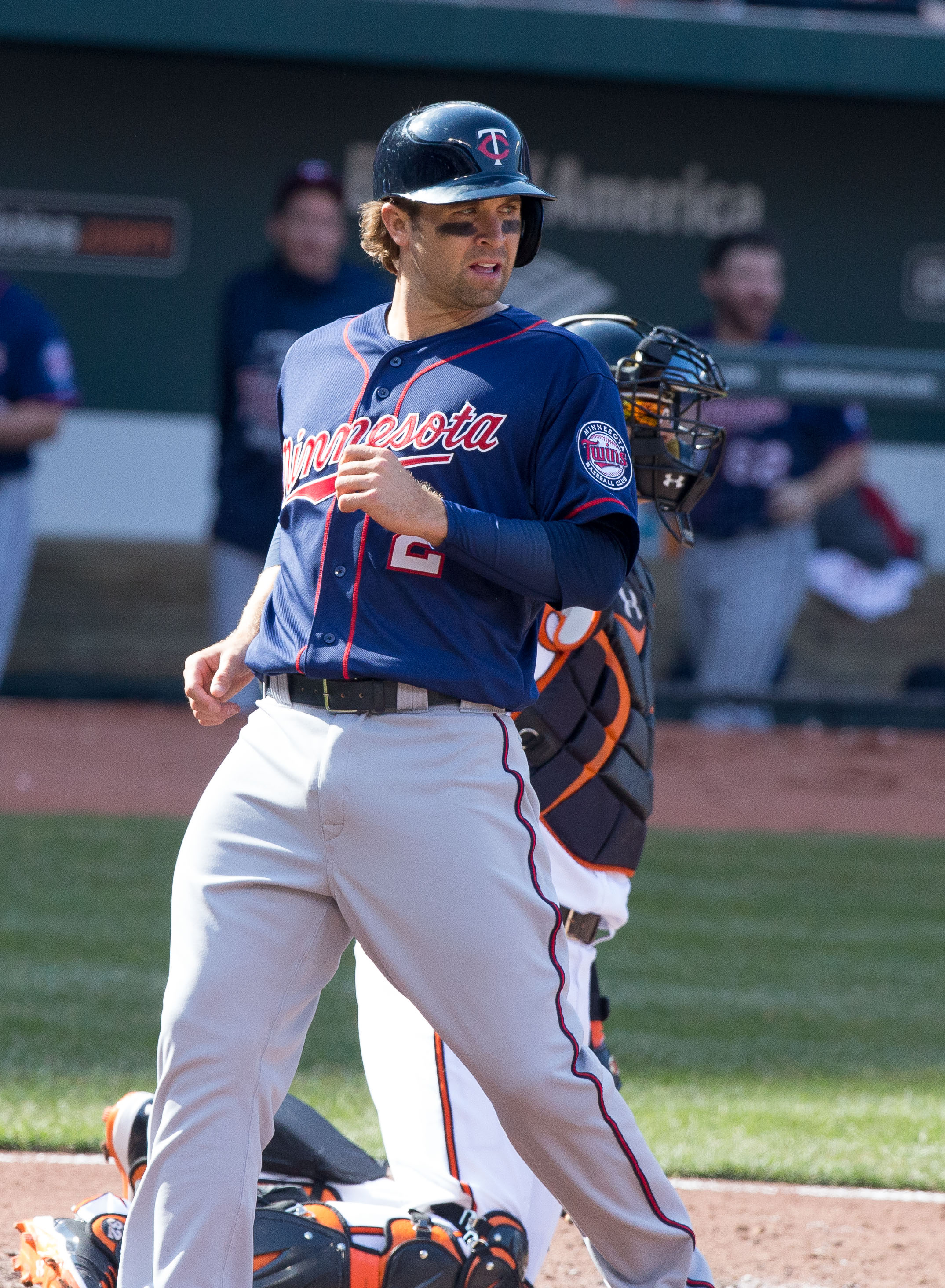 Brian Dozier of the Minnesota Twins in a game against the Baltimore Orioles at Oriole Park at Camden Yards on April 5, 2013 in Baltimore, Maryland.